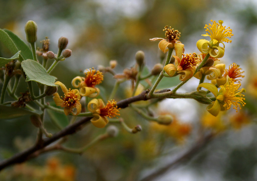 Grewia damine syn. Grewia salvifolia in Hyderabad, India.